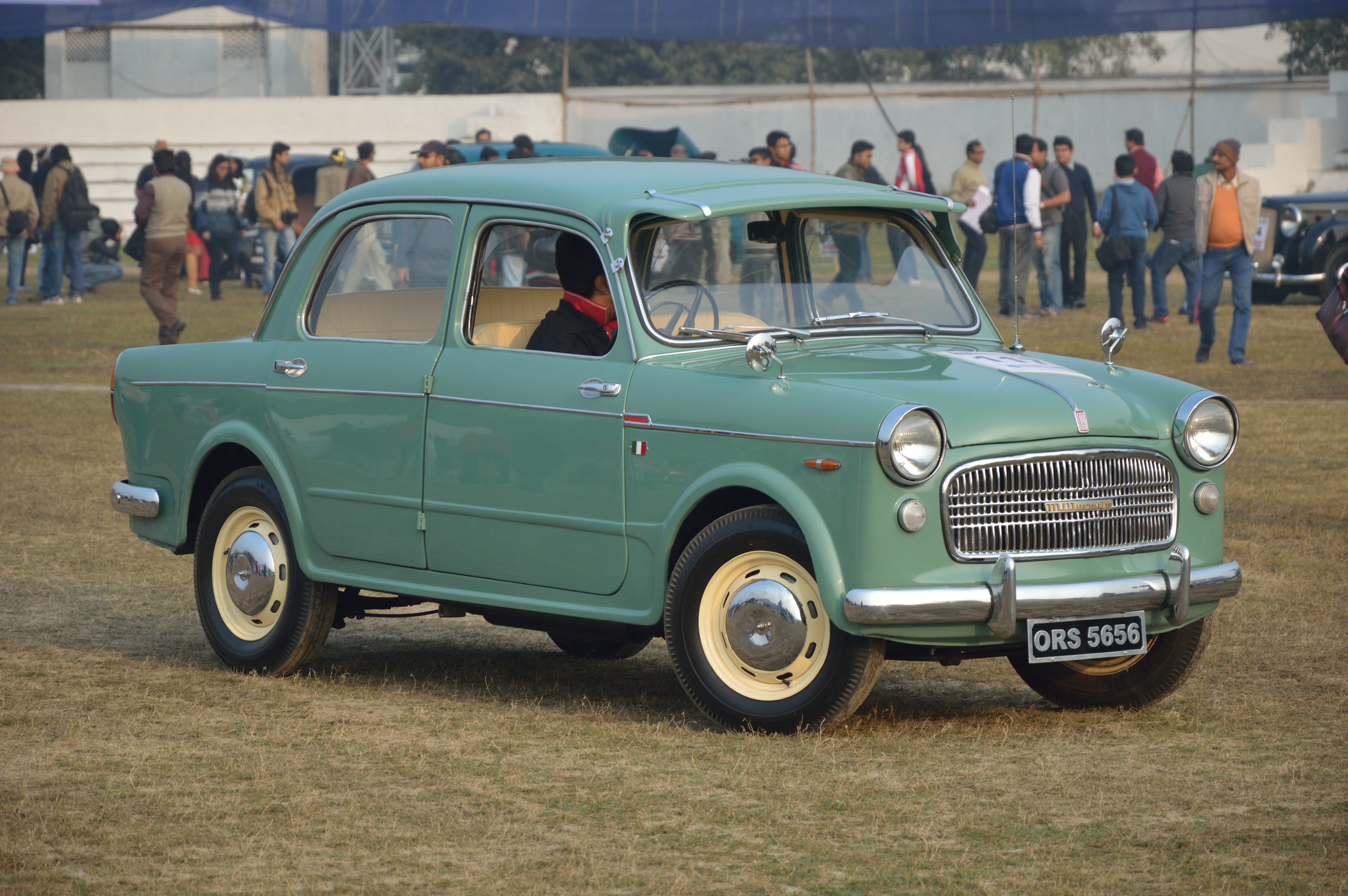 This car was exhibited and took part during ‘The Statesman Vintage & Classic Car Rally 2014’at the Eastern Command Sports Stadium of Fort William, Kolkata. The route was Strand road, Esplanade, Central avenue, Bhupen Bose avenue, Shaymbazaar five points crossing, APC Roy road, Moulali, CIT road, National Medical College, Park Circus seven points, Syed Amir Ali Avenue, Gariahat, Rashbehari Avenue, SP Mukherjee road, Hazra crossing, Ashutosh Mukherjee road, Exide crossing, AJC Bose road again Strand road and back to the ECS stadium. The rally was held at the morning on Sunday, 19 January 2013 at the ECS Stadium, where 175 entrants were registered with cars and bikes manufactured from 1906 to 1971. This one day festival usually takes place on the second Sunday of every January (but this time it is observed on third Sunday) in Kolkata since 1968 with full of period costume and cultural period pieces.